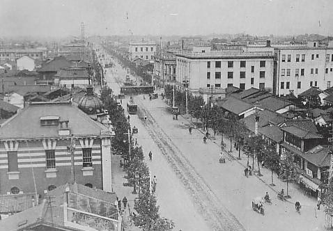 Karasuma-Dori in 1930s